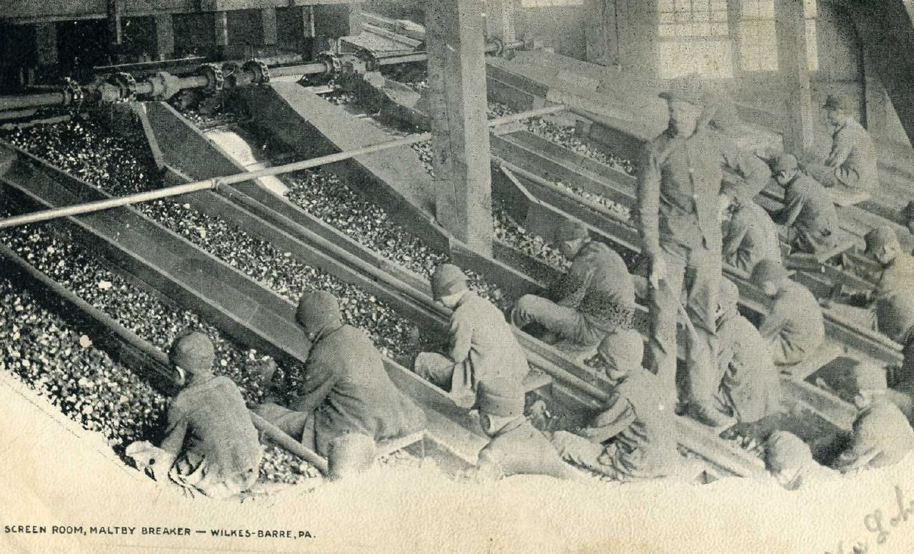 Child Labor in mining industry. Shift supervisor watches with a stick. Postmarked 1906. Location: Wilkes-Barre, PA, USA